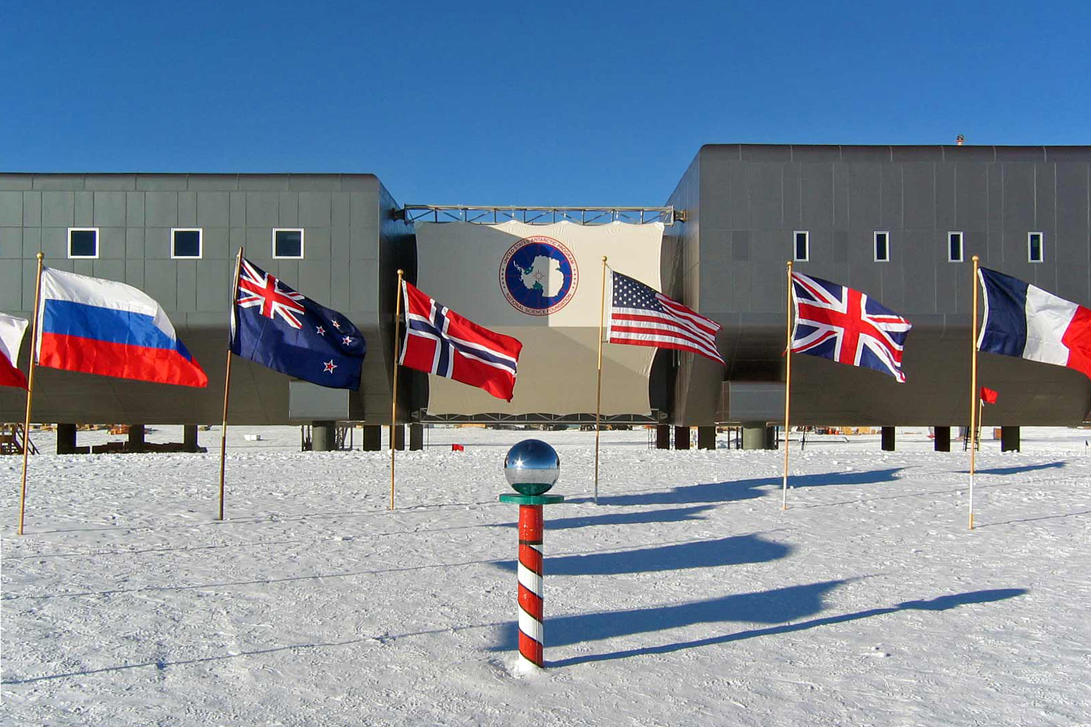 Amundsen-Scott South Pole Station in the 2007–2008 summer season. The new elevated Amundsen-Scott South Pole Station is now complete. In the foreground is the ceremonial South Pole and the flags for the original 12 signatory nations to Antarctic Treaty.